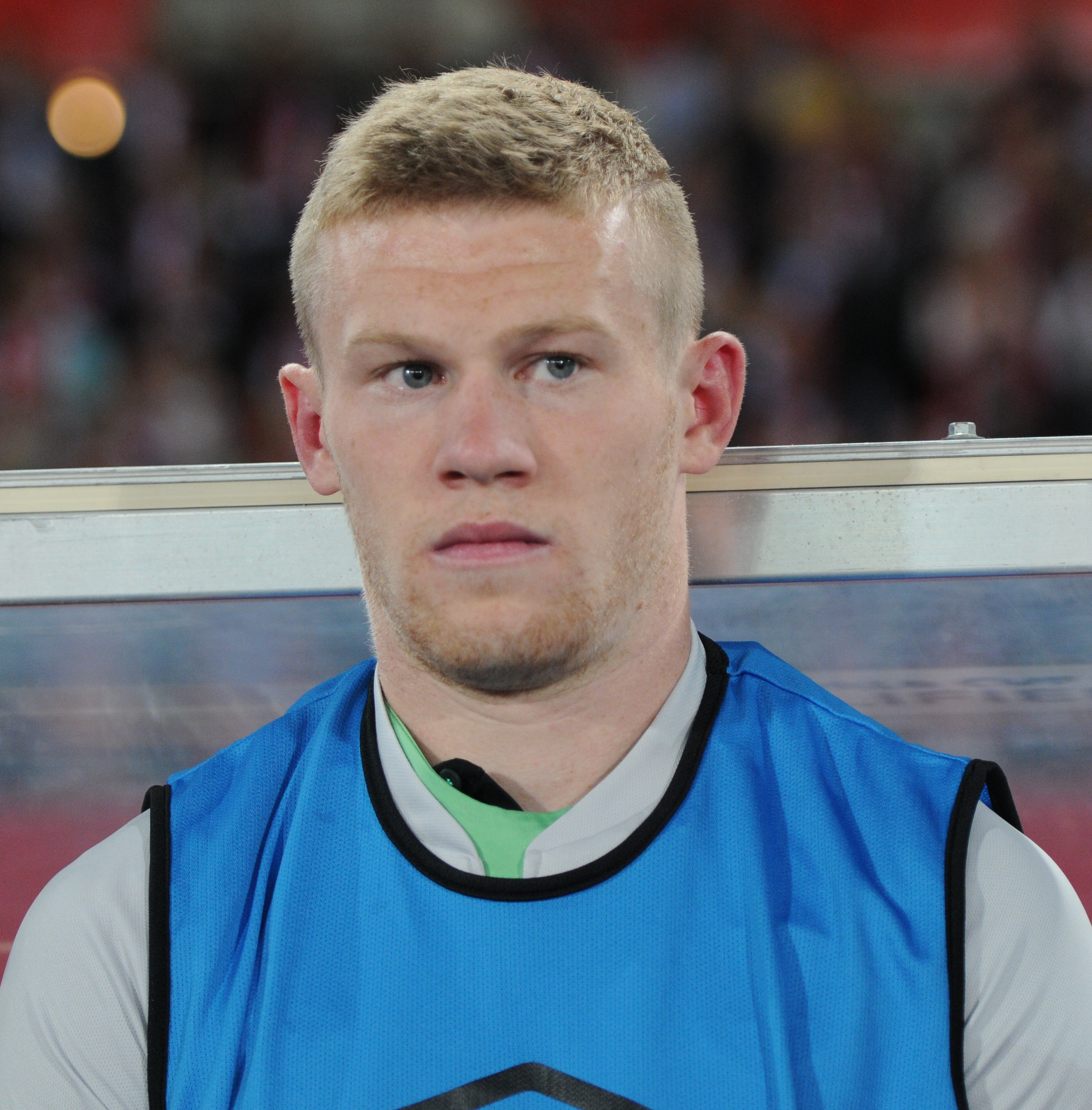 2014 FIFA World Cup qualification (UEFA), Group C: Republic of Ireland national football team at 10. September 2013 before the match against the Austria national football team (0:1) in the Ernst-Happel-Stadion in Vienna. Here:James McClean, Irish winger. The making of this work was supported by Wikimedia Austria. For other files made with the support of Wikimedia Austria, please see the category Supported by Wikimedia Österreich.